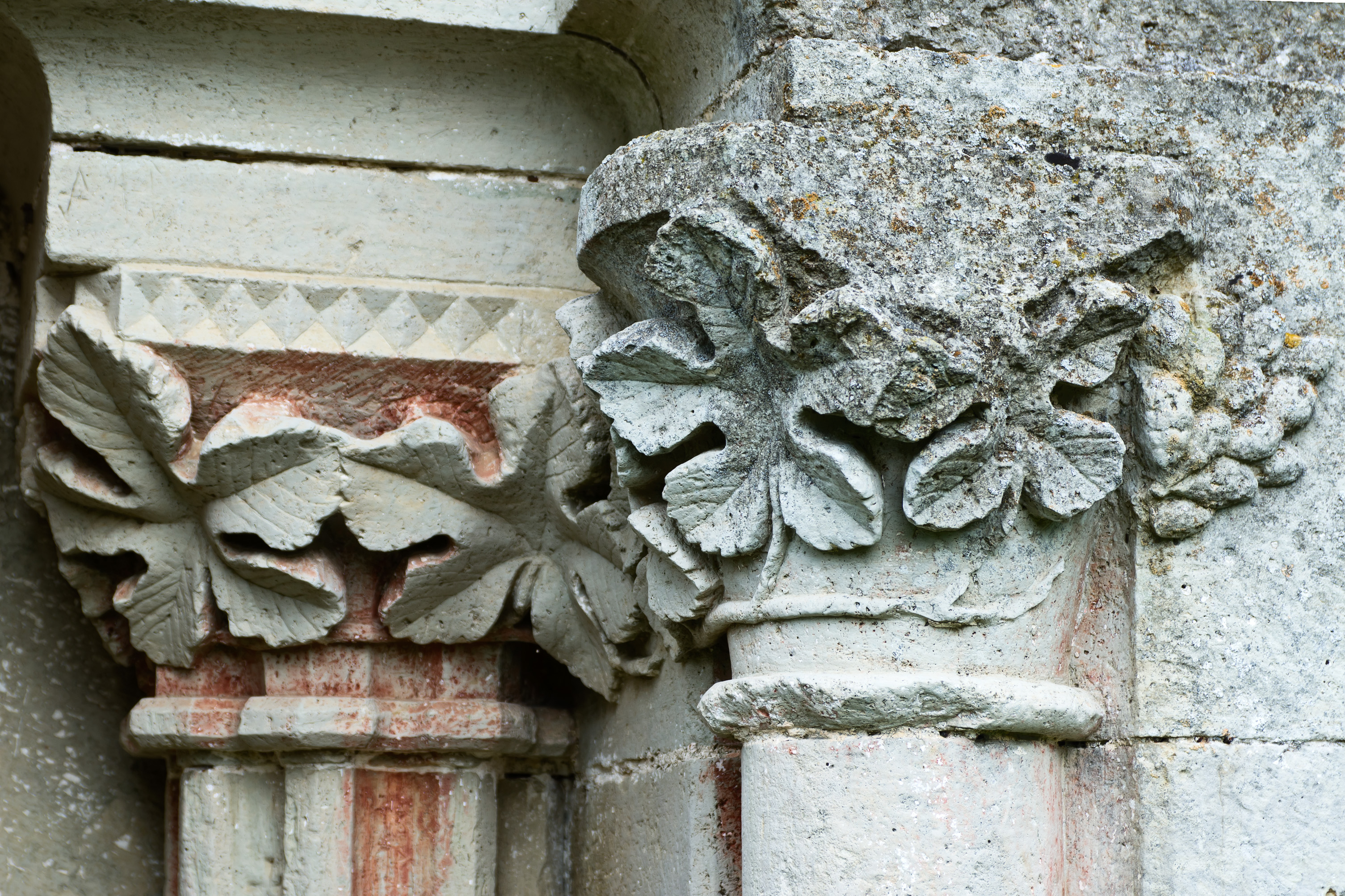 Capitals of the west portal columns on Karja church